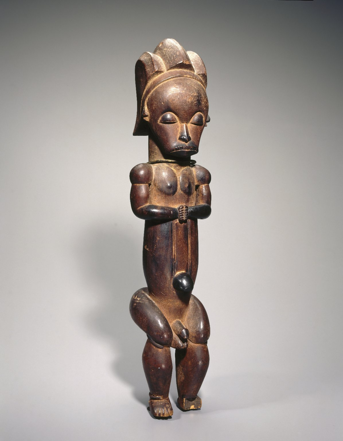 The object is a male ancestor figure carved from a single piece of wood wearing a thick copper alloy necklace. The figure was probably attached to a skull basket that was used in connection with ancestor worship. The object is in fair condition. It has several deep splits. One particular split runs from the left side of the buttock, up the spine, over the head, and into the forehead. There in another deep split on the back side of the head. The front half of the proper right foot is missing. From an unknown cause, dry-rot settled on the bottom of the figure under the seat. The original surface is gone leaving a concave depression. The object was fumigated with carbon tetrachloride; the hole was filled with gesso, retouched, and waxed.